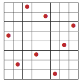 A Costas array composed of non-attacking kings